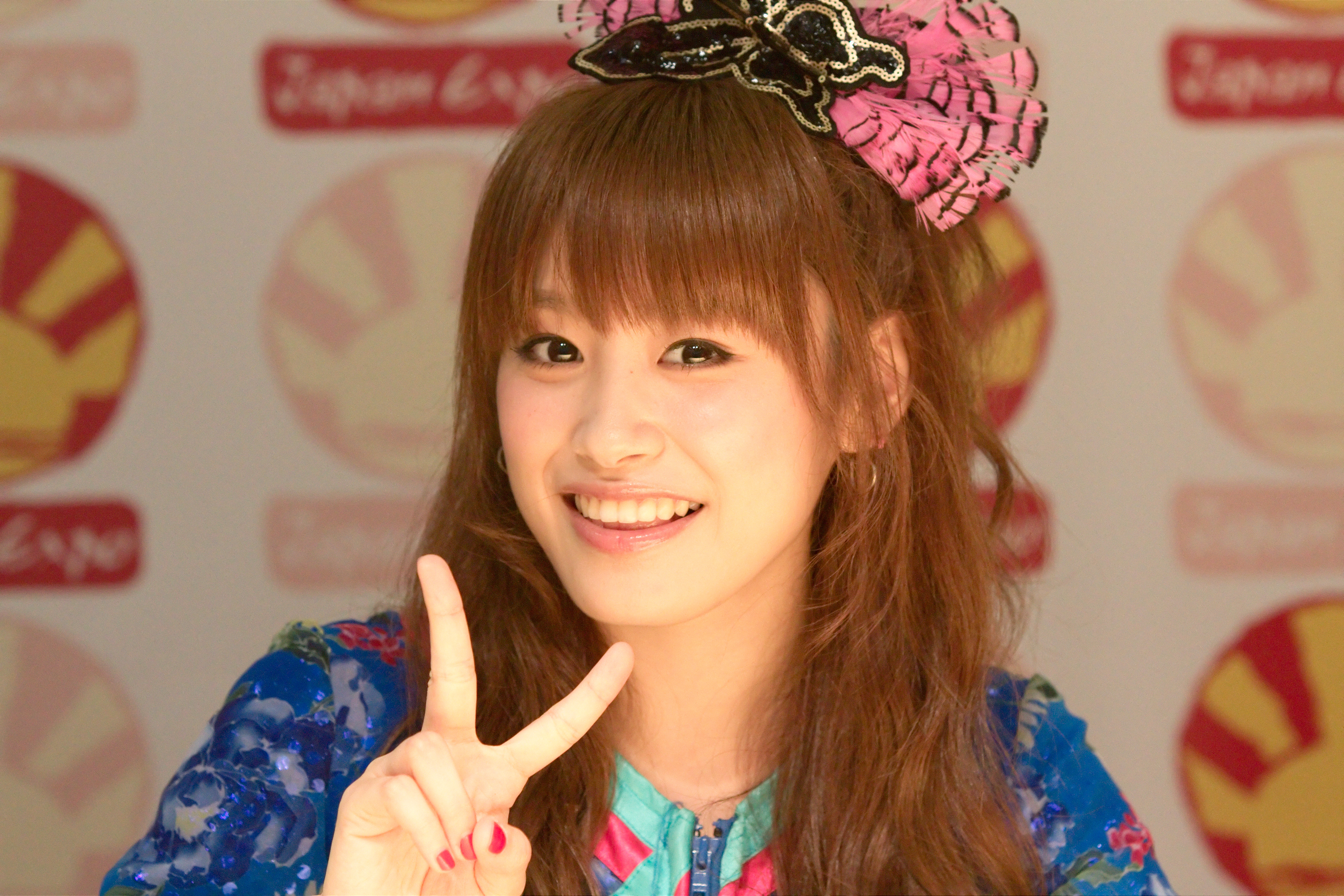 Ai Takahashi of Morning Musume during autograph session at Japan Expo, Sunday, July 03, 2010 (Paris, France).